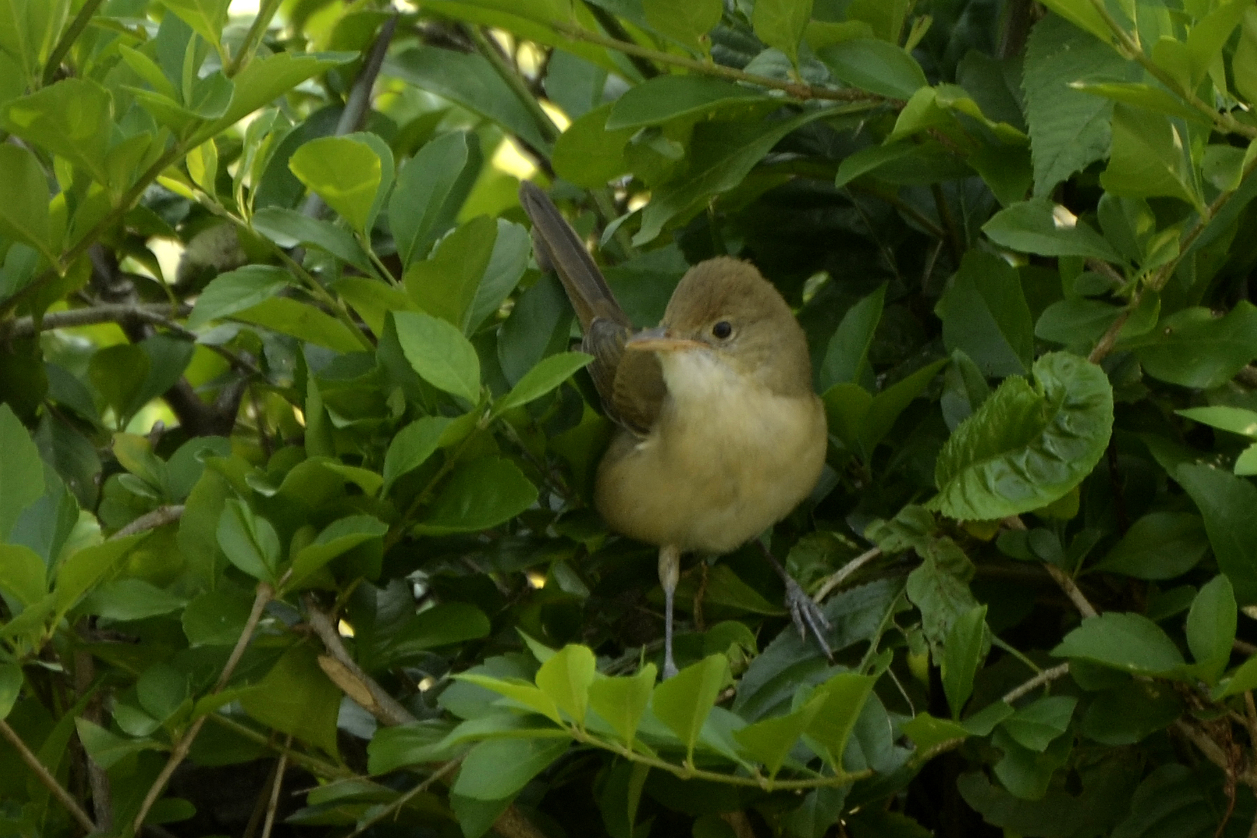 Thick-billed warbler (Iduna aedon) from The Anamalai hills, Southern Western Ghats, India